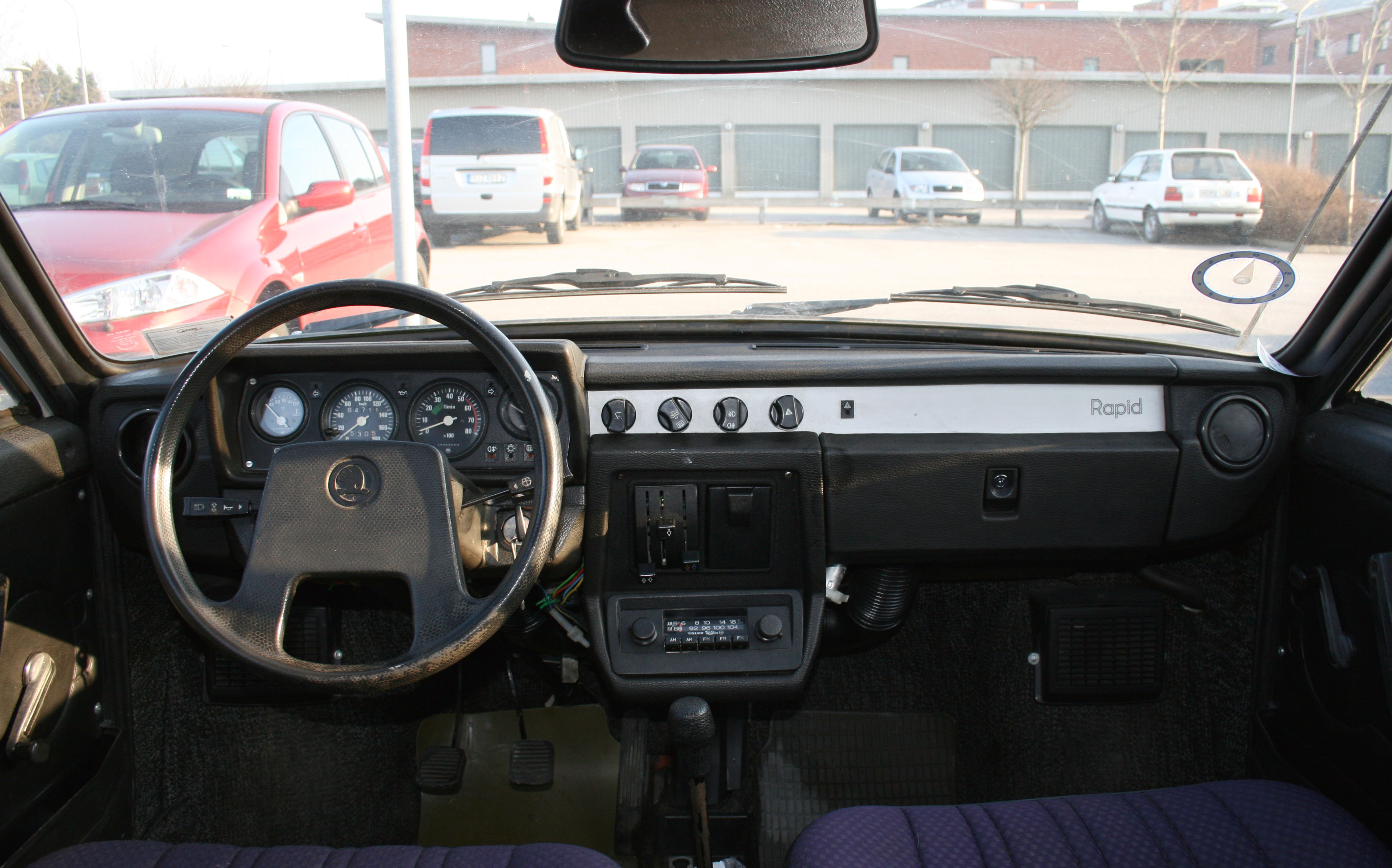 Interior of a 1985 Skoda Rapid 130.